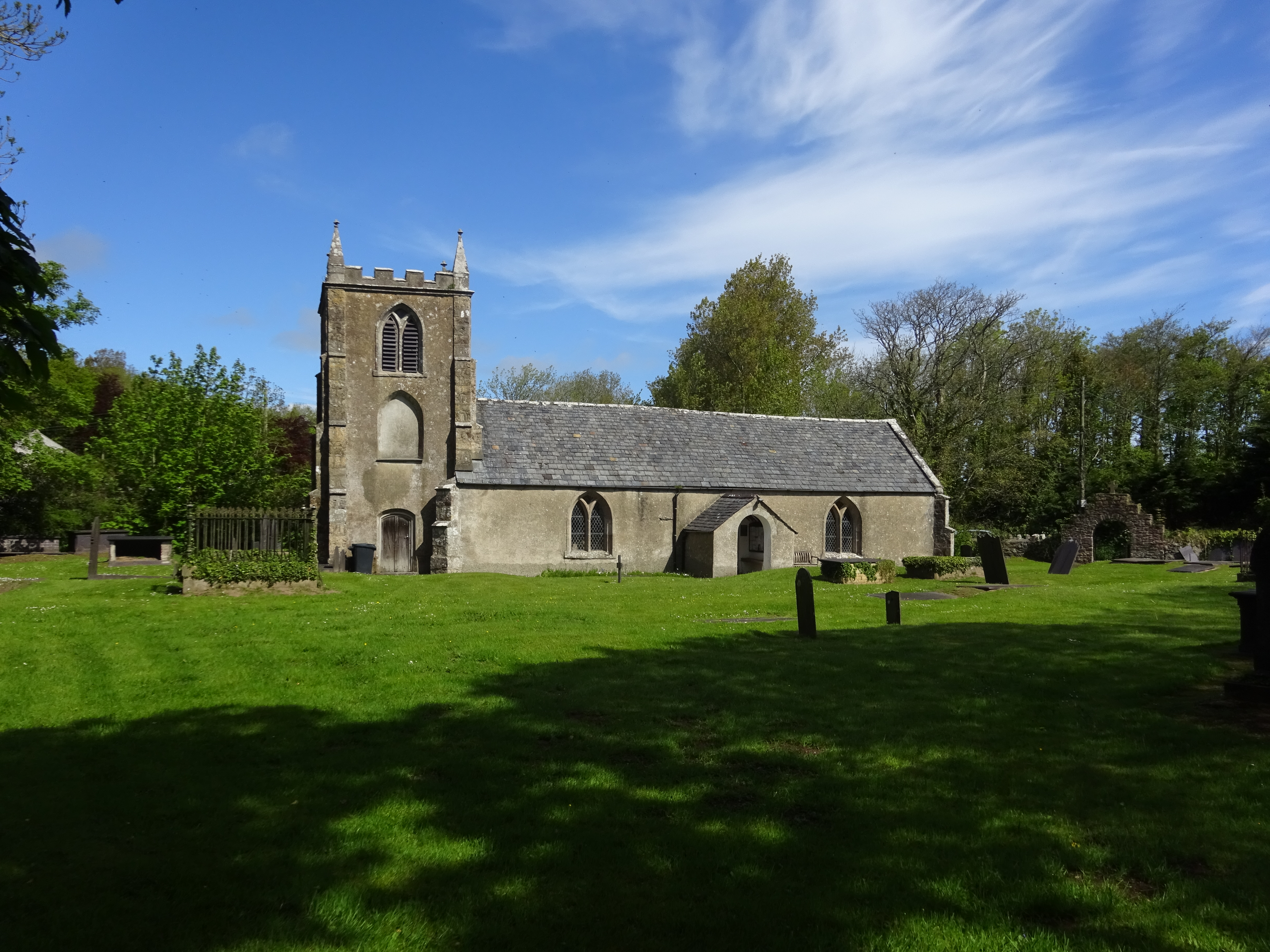 St Ceinwen's Church, Llangeinwen, Anglesey, Wales.